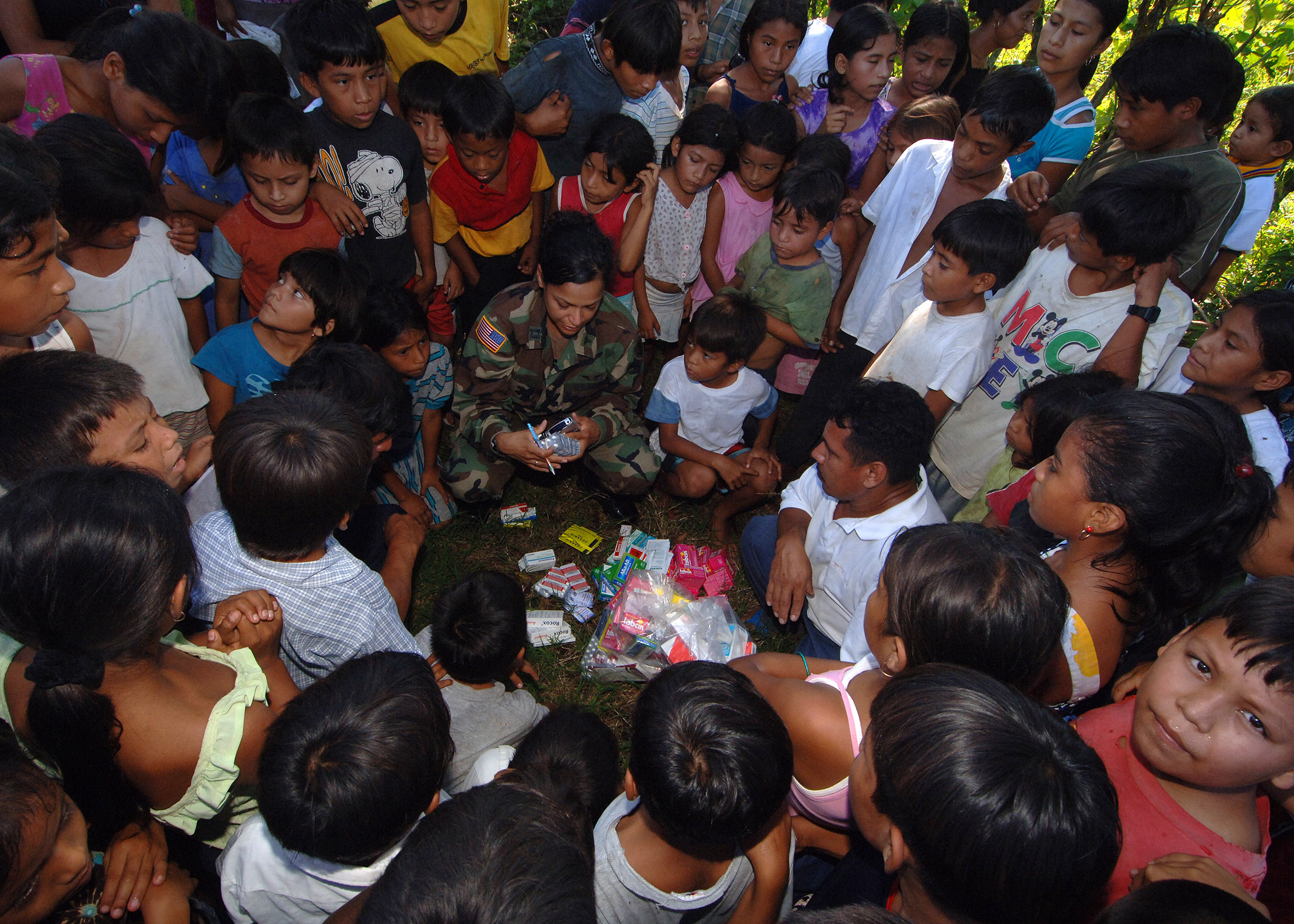 Guatemala City, Guatemala (Oct. 16, 2005) - U.S. Army Capt. Daniva Mayes discusses the medicine that she is leaving behind with a local physician to help the victims of Hurricane Stan in Guatemala. Personnel from U.S. Southern Command Joint Task Force Bravo is providing assistance to the government and the people of Guatemala as part of an ongoing disaster relief effort in the wake of Hurricane Stan. U.S. Navy photo by Photographer's Mate 1st class Robert McRill (RELEASED)